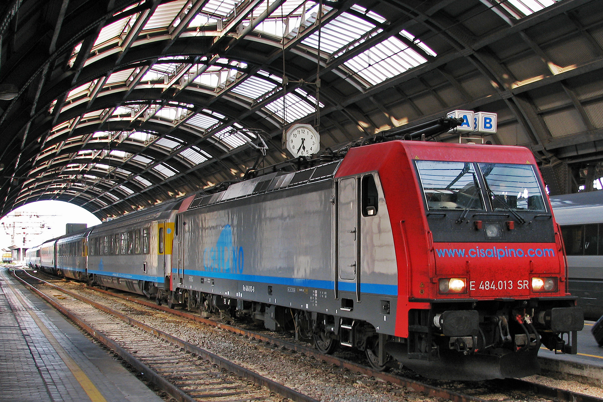 SBB Carge Re 484.013 (alias E.484.013) leased by Cisalpino just arrived in Milano Centrale with the EC 133 "Verbano" coming from Basel SBB.